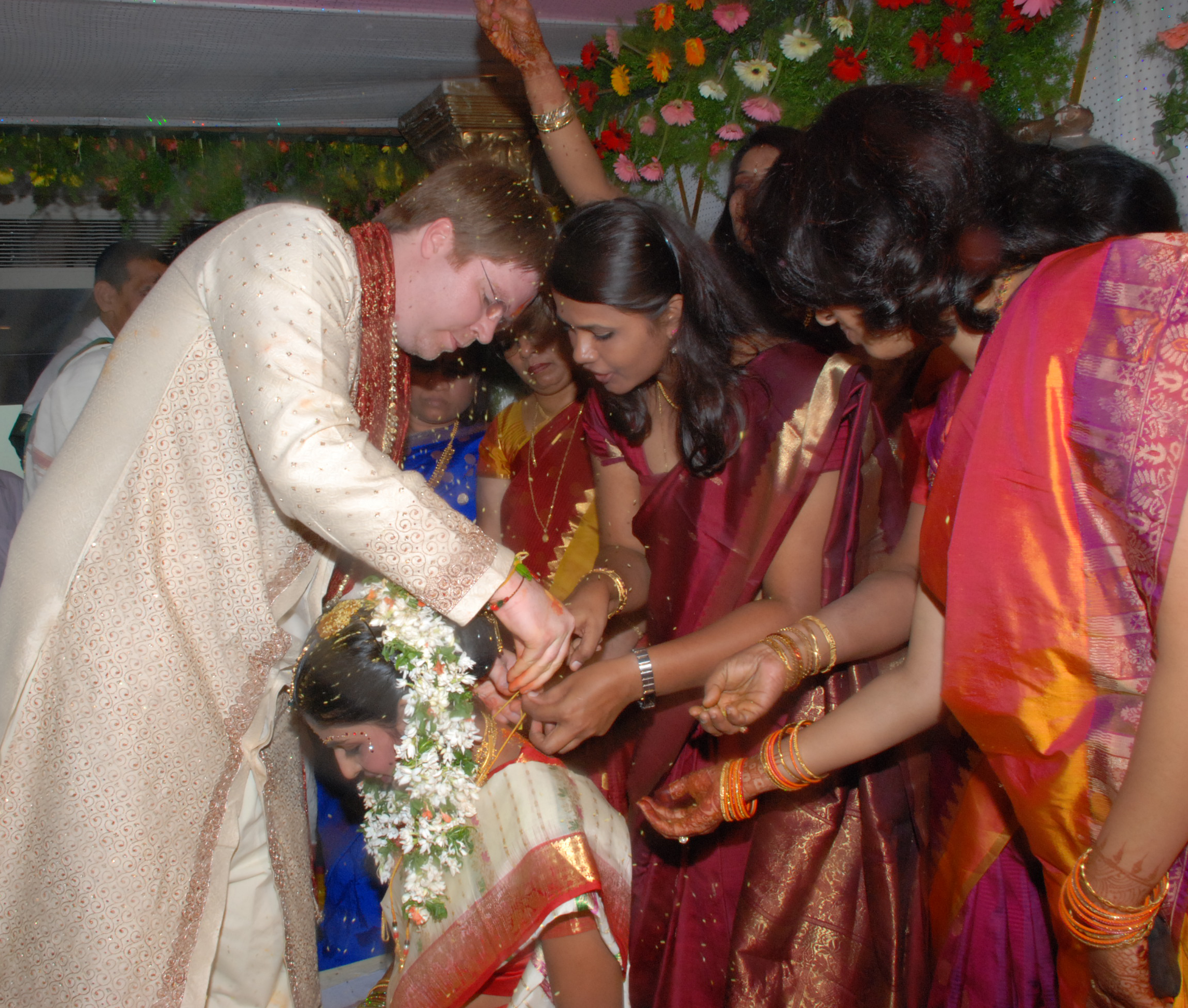 Tying the mangalsutra at a Telugu wedding.